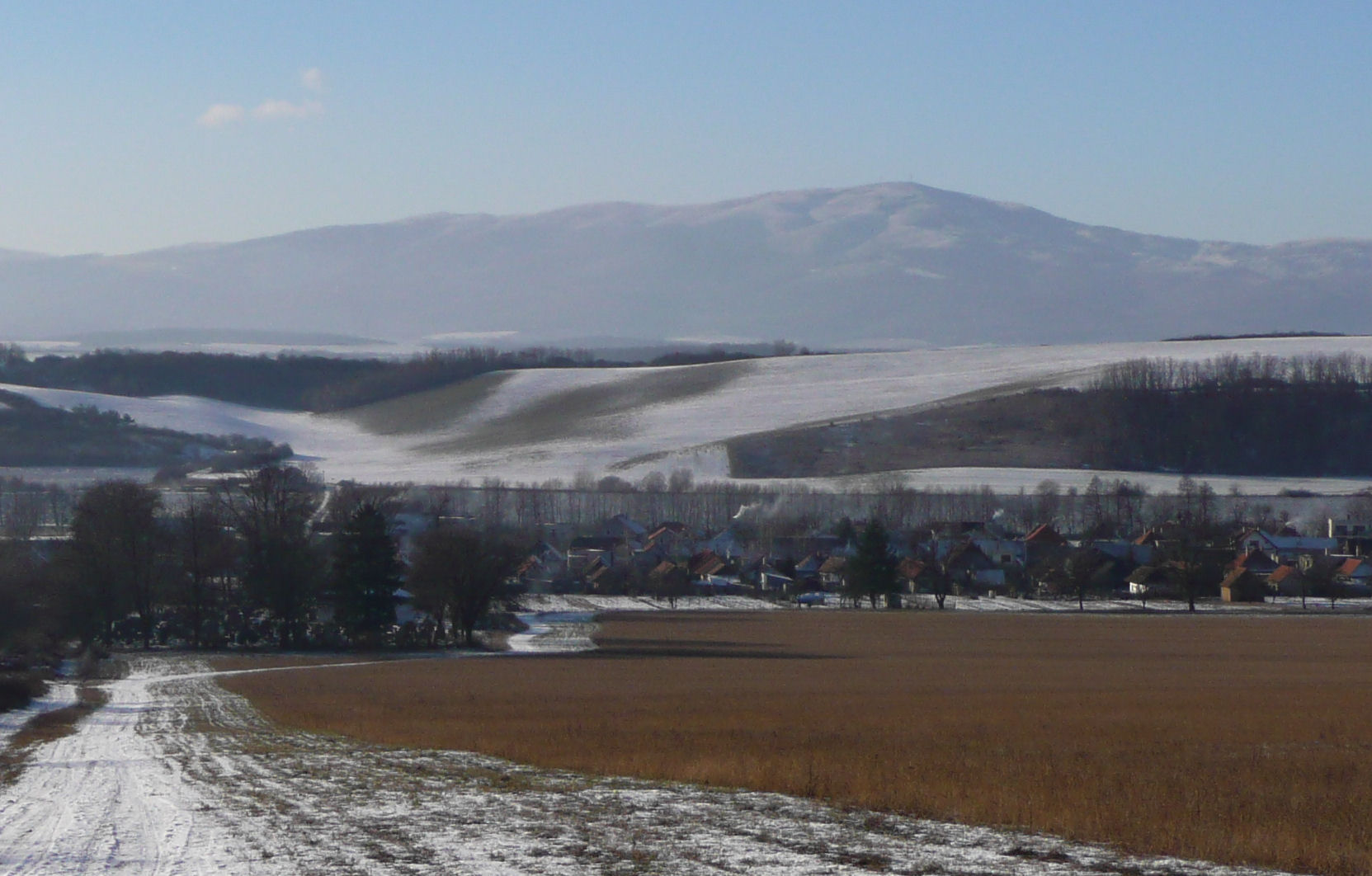 Picture of Podluzany from the track leading towards Pry Bôr forrest